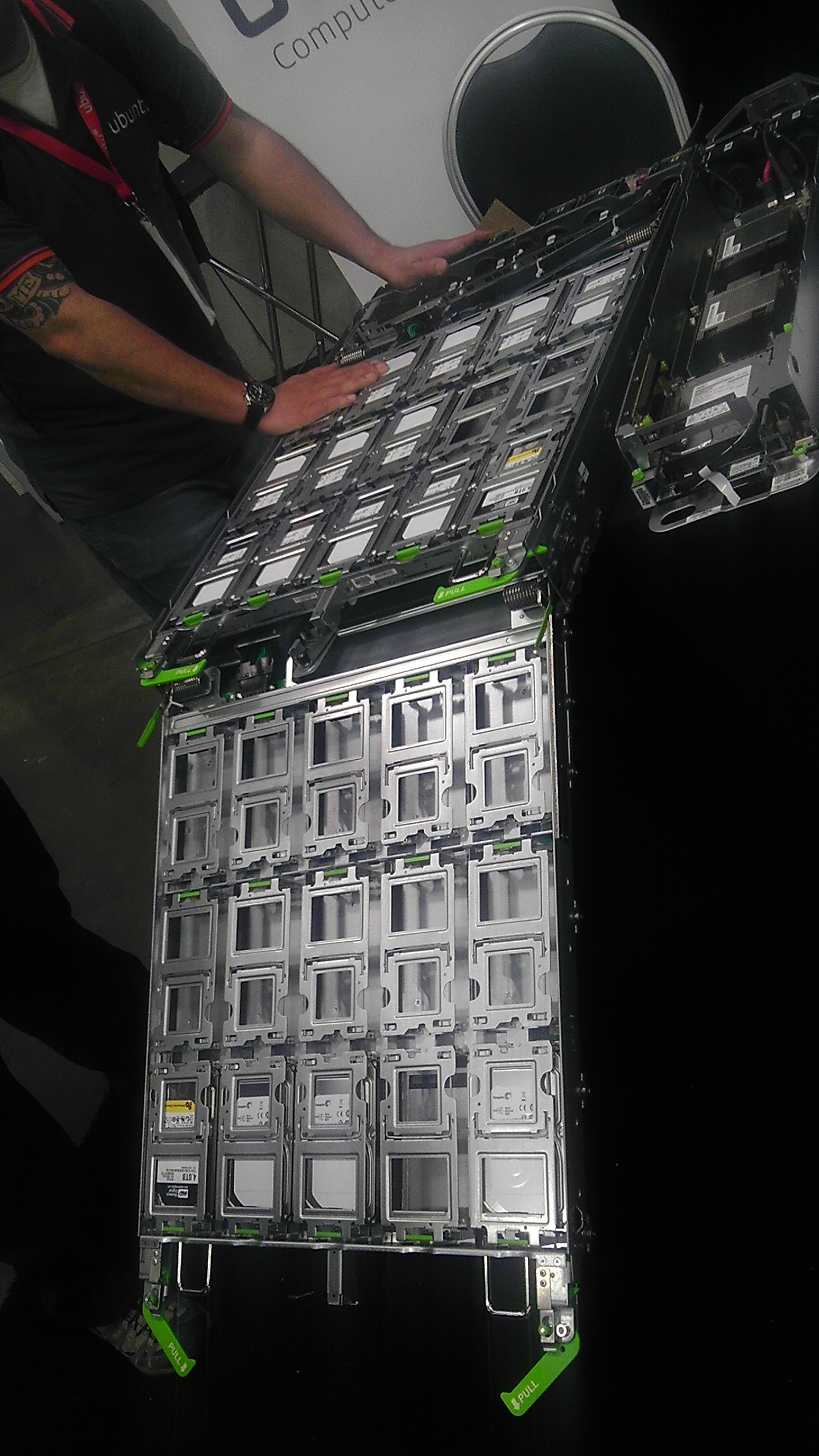 Open Compute 1U Drive Tray Bent (2 of 2) 2ed lower tray extended and bent down for access from below